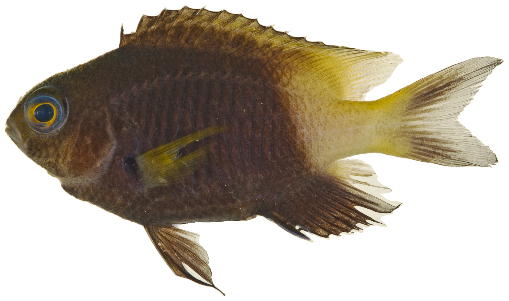 Stegastes partitus (Poey, 1868)—bicolor damselfish, 58.6 mm SL, yellow-tailed color morph. Photo by JT Williams.